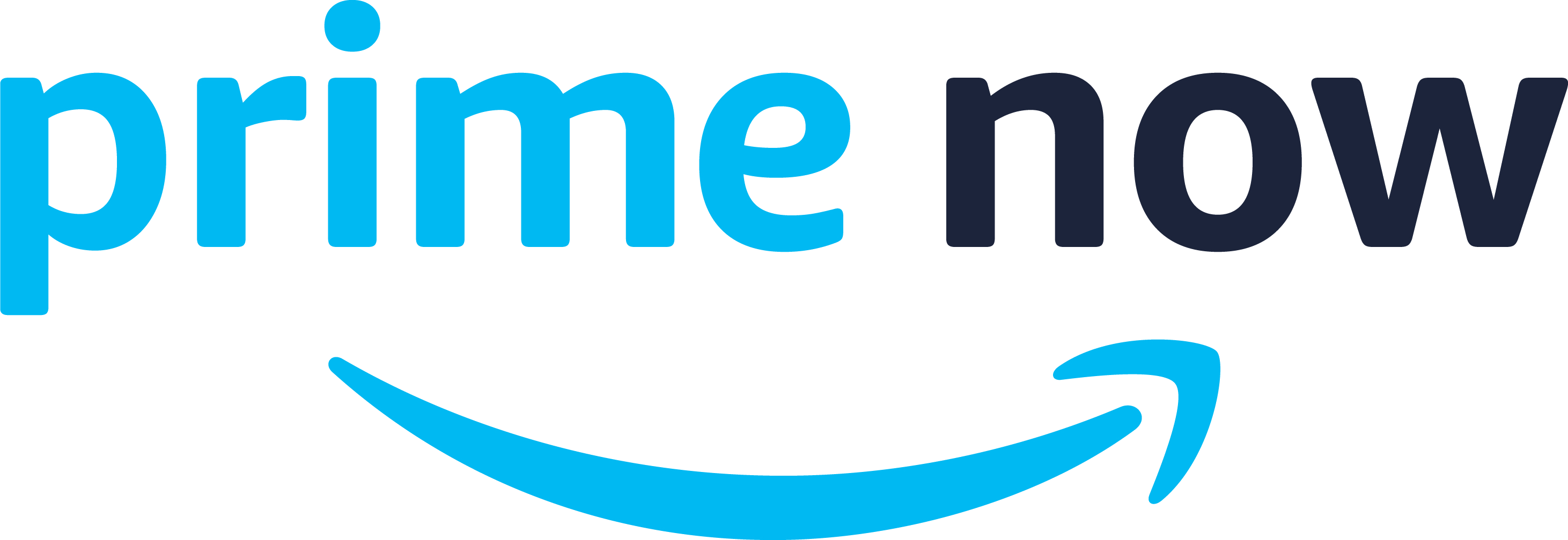 Amazon Prime Now logo